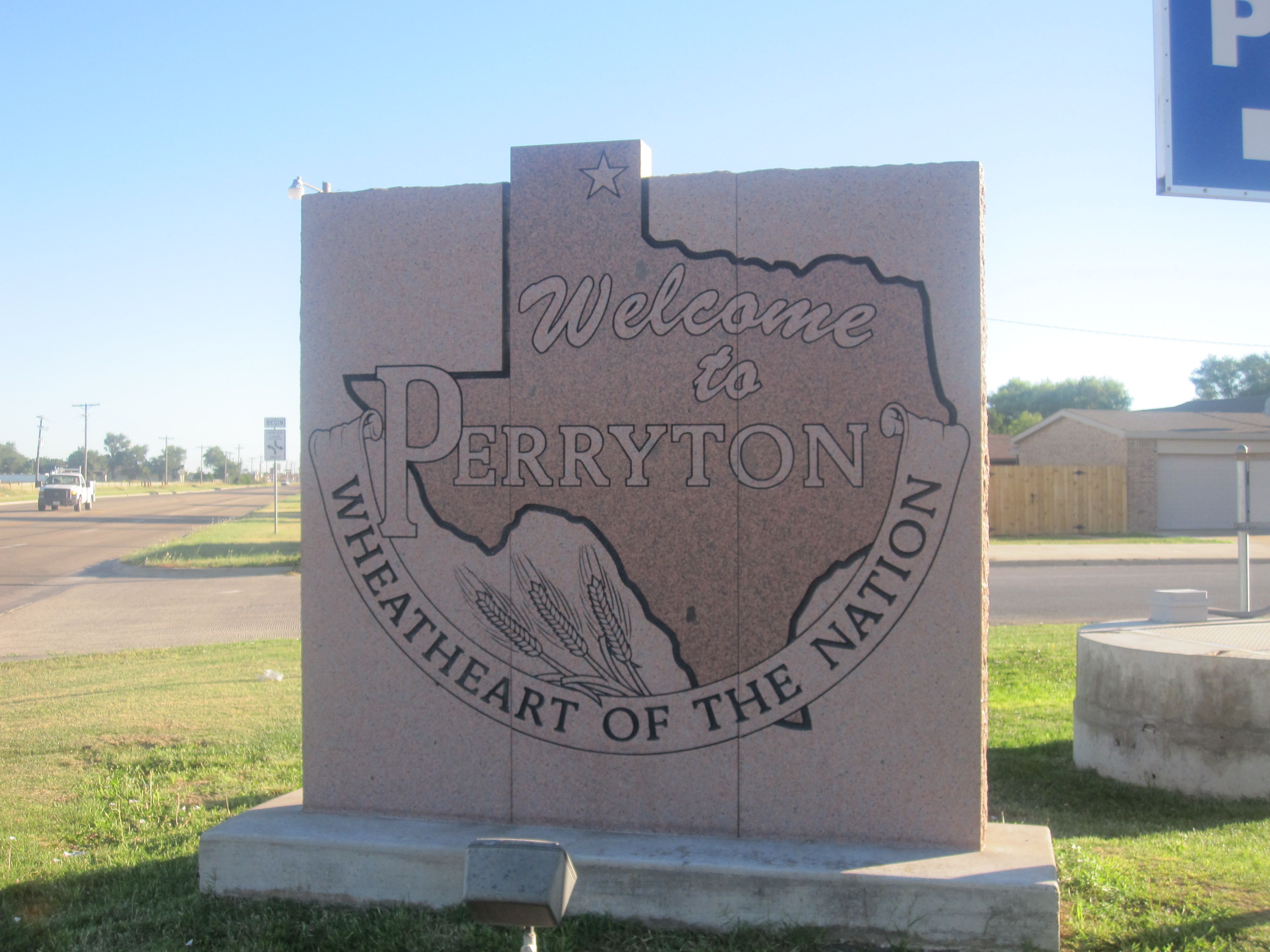 I took photo with Canon camera in Perryton, TX.